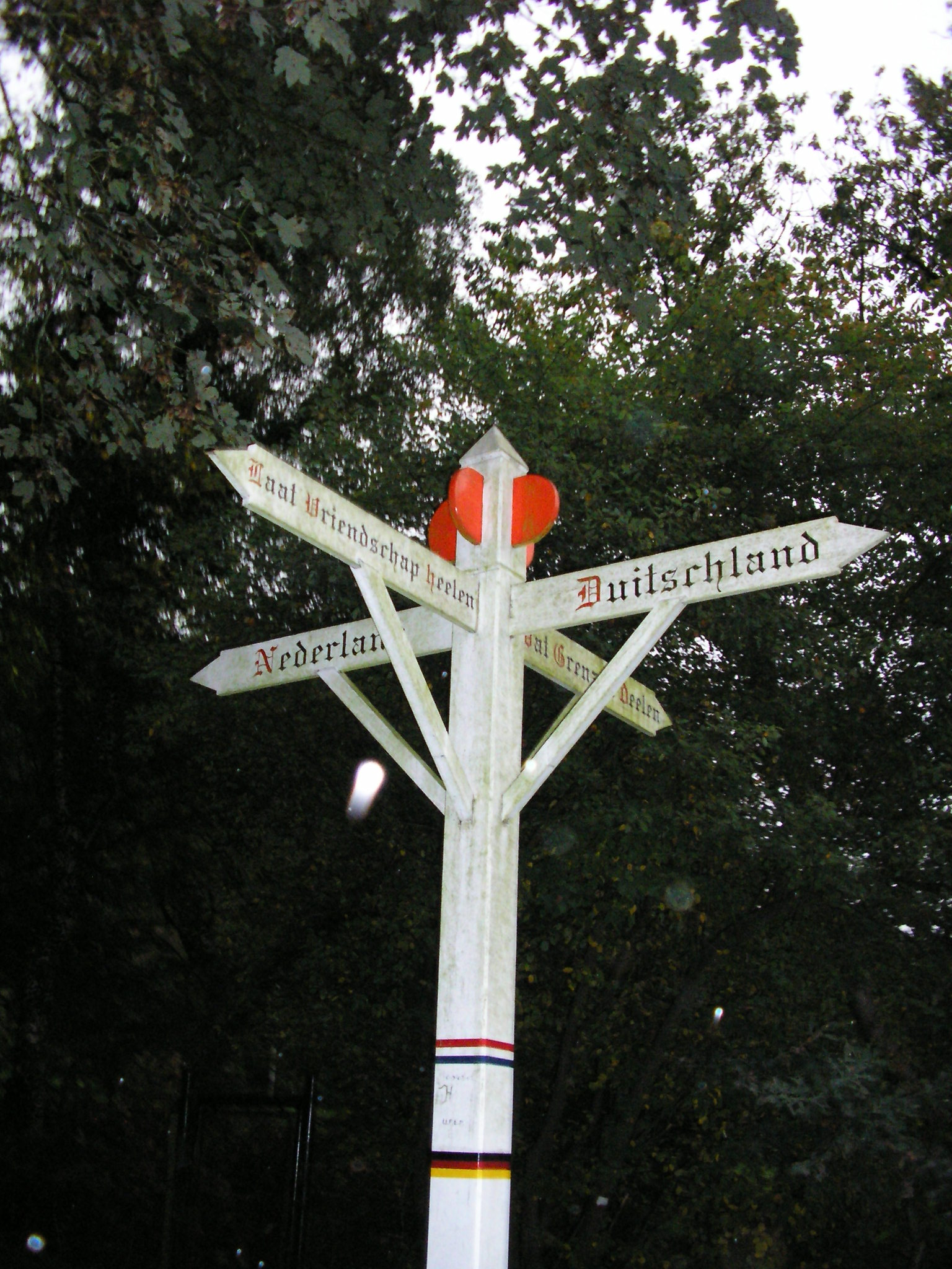 This is a replica of an old Dutch-German border sign. It is currently located in Dutch territory, near the Duivelsberg, as a result of Dutch annexation of German territory after World War II. Indicated are Nederland (Netherlands) and Duitschland (Germany). The text perpendicular to these directions reads Laat vriendschap heelen wat grenzen deelen ("Let friendship heal what borders divide"). Junes 13:23, 14 October 2006 (UTC)